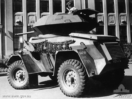 AWM Caption: AUSTRALIA. CARS, ARMOURED "RHINO" (AUSTRALIAN). LEFT SIDE VIEW.